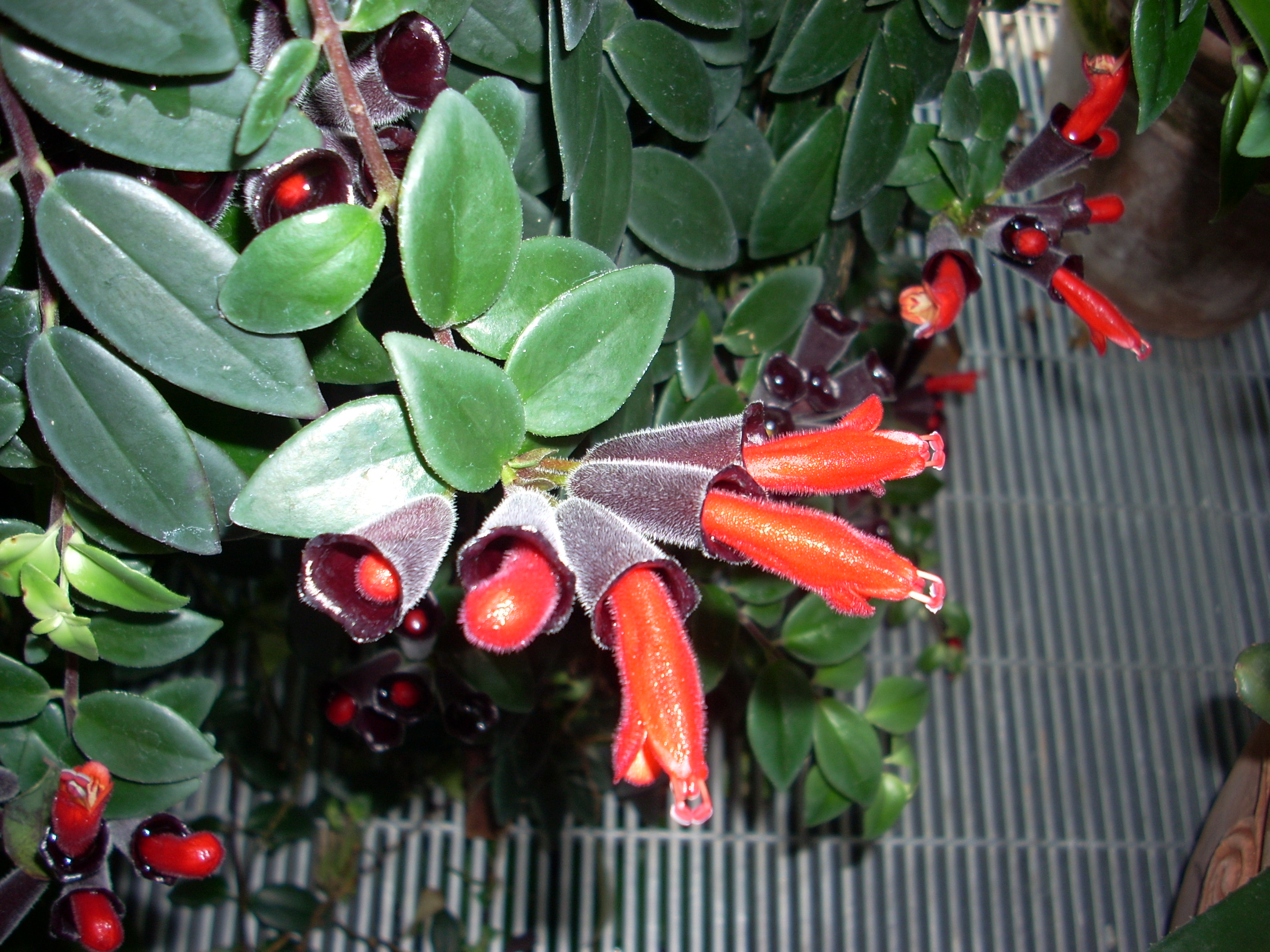 Lipstick plant (Aeschynanthus) at the United States Botanic Garden, Washington DC